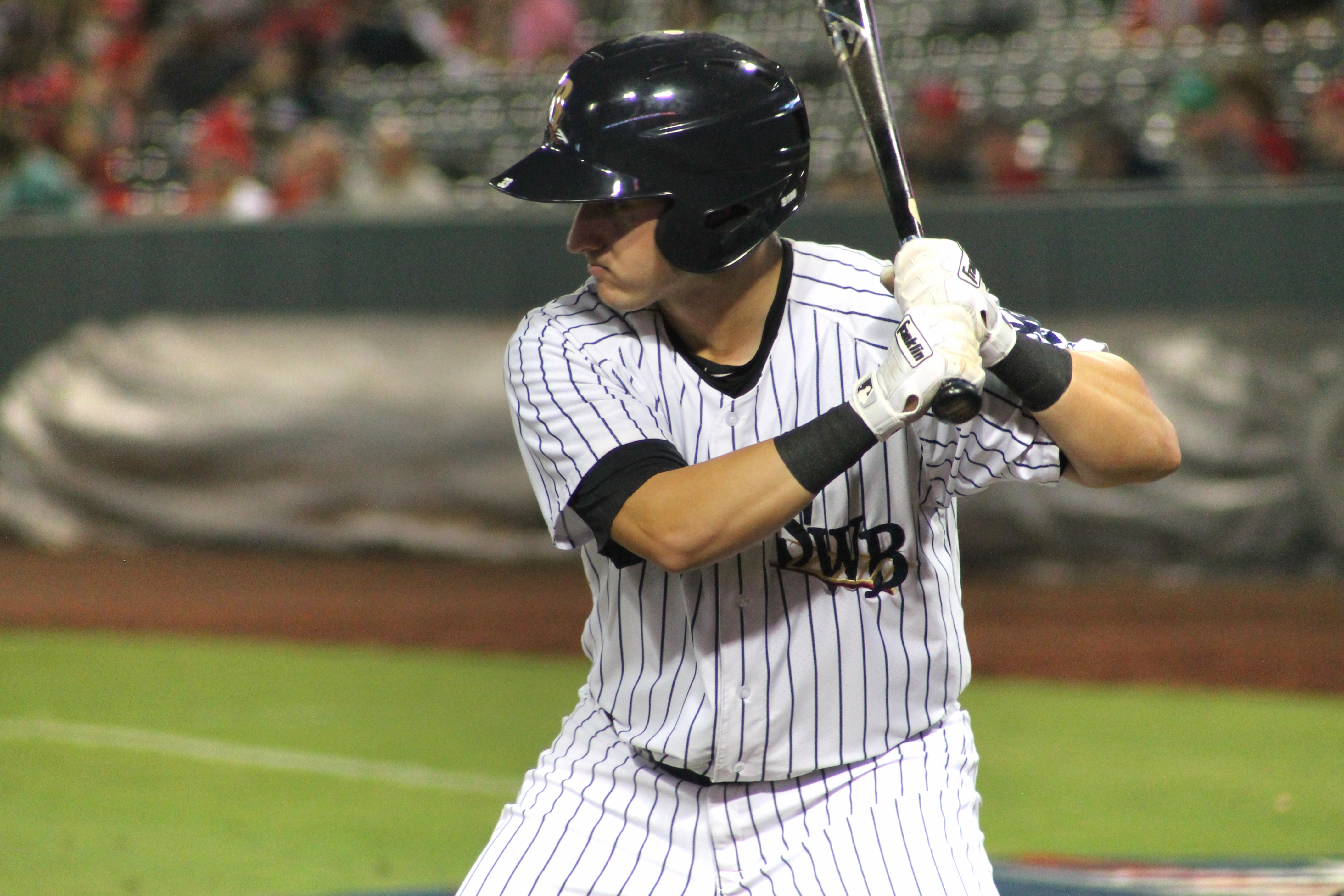 Mark Payton, a professional baseball player, takes an at bat during a game in Memphis in September 2016.